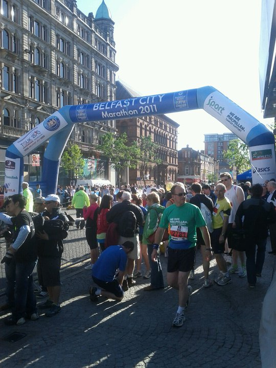 This is a photo of the starting point of the Belfast Marathon held on the 2nd May 2011. It is being used to help add depth to the Belfast Marathon wikipedia page.